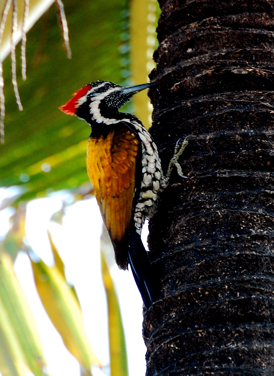 Dinopium benghalense (Black-rumped Flameback, a.k.a. Golden-backed Woodpecker) shot from Chalakudy, Kerala, India.